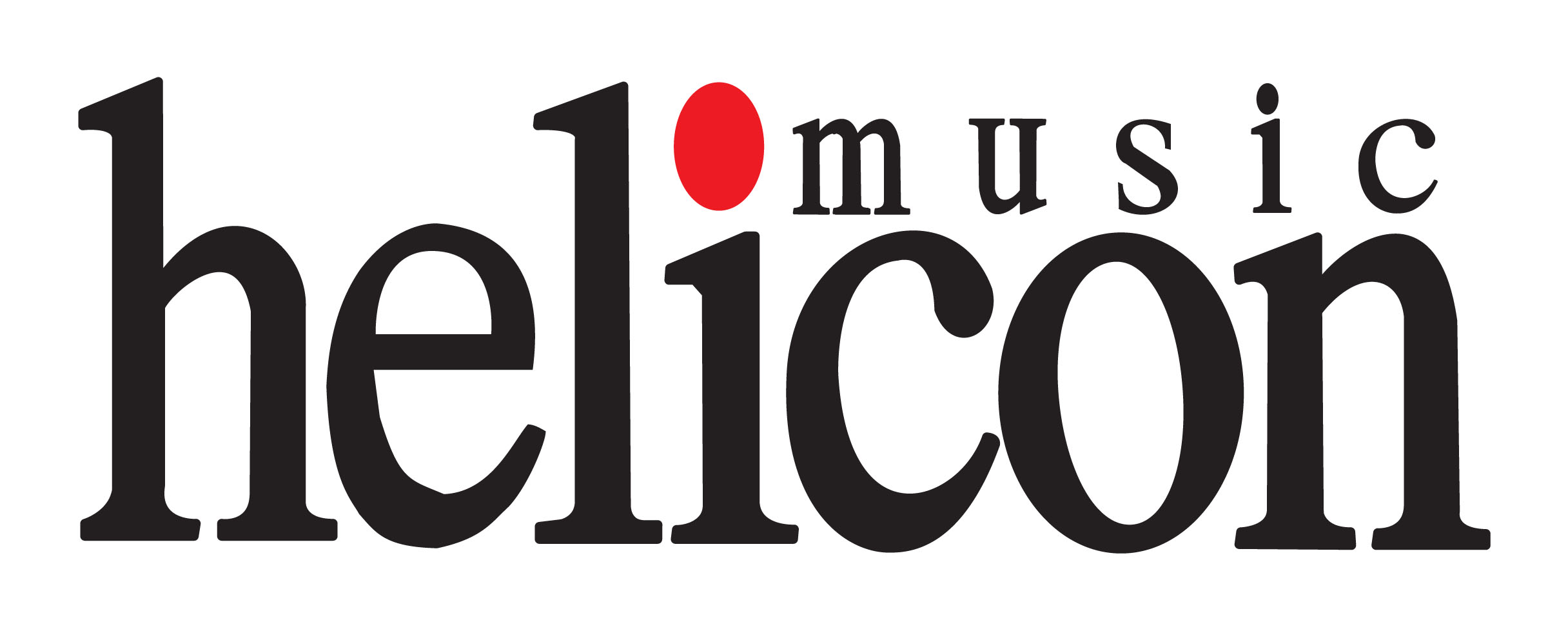 Helicon Music Logo